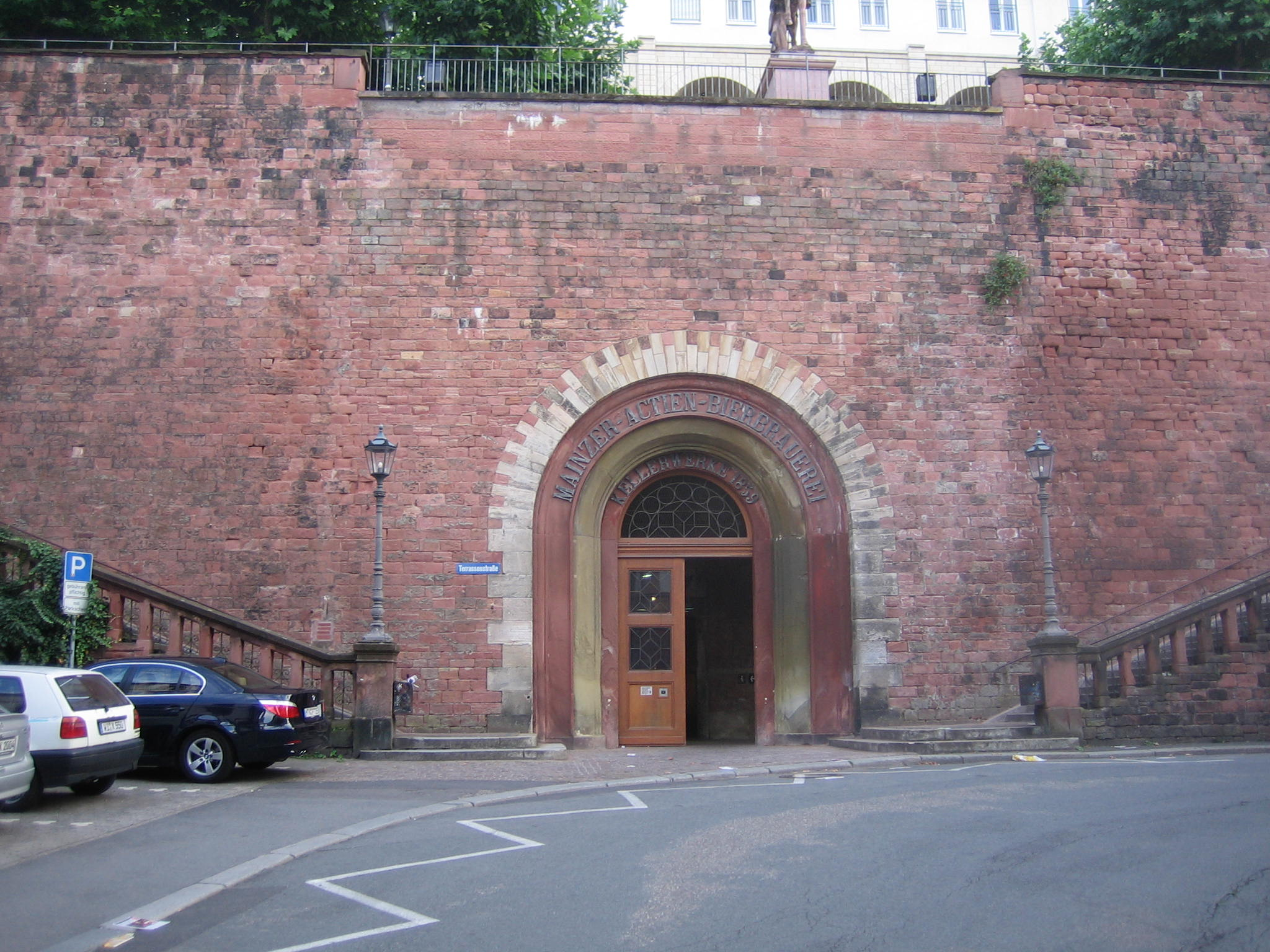 Main cellar entrance to the Mainzer Aktien Bierbrauerei, Mainz, Germany. View from the Emmerich Joseph Straße